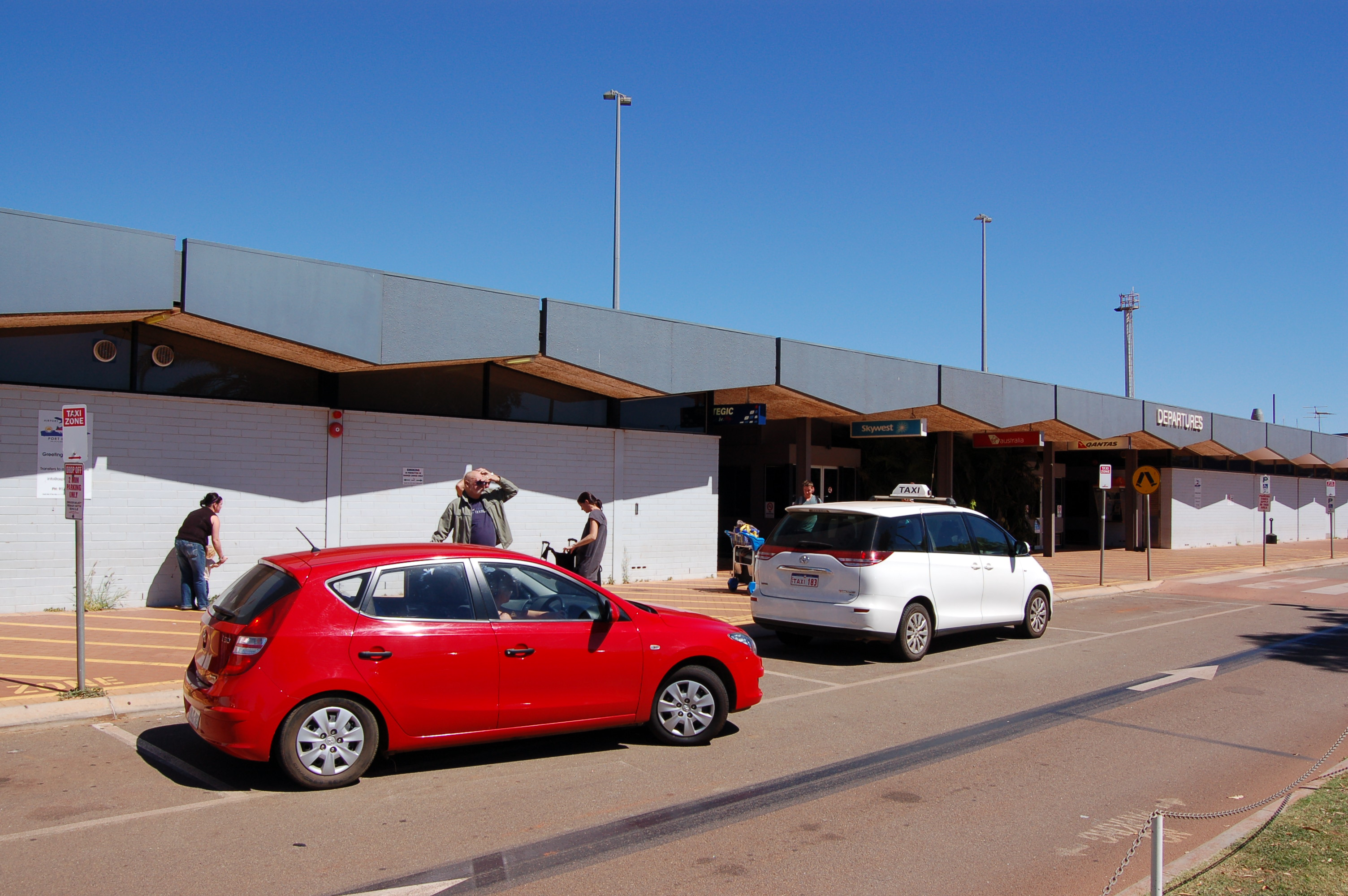 The main entrance to the terminal at Port Hedland International Airport.